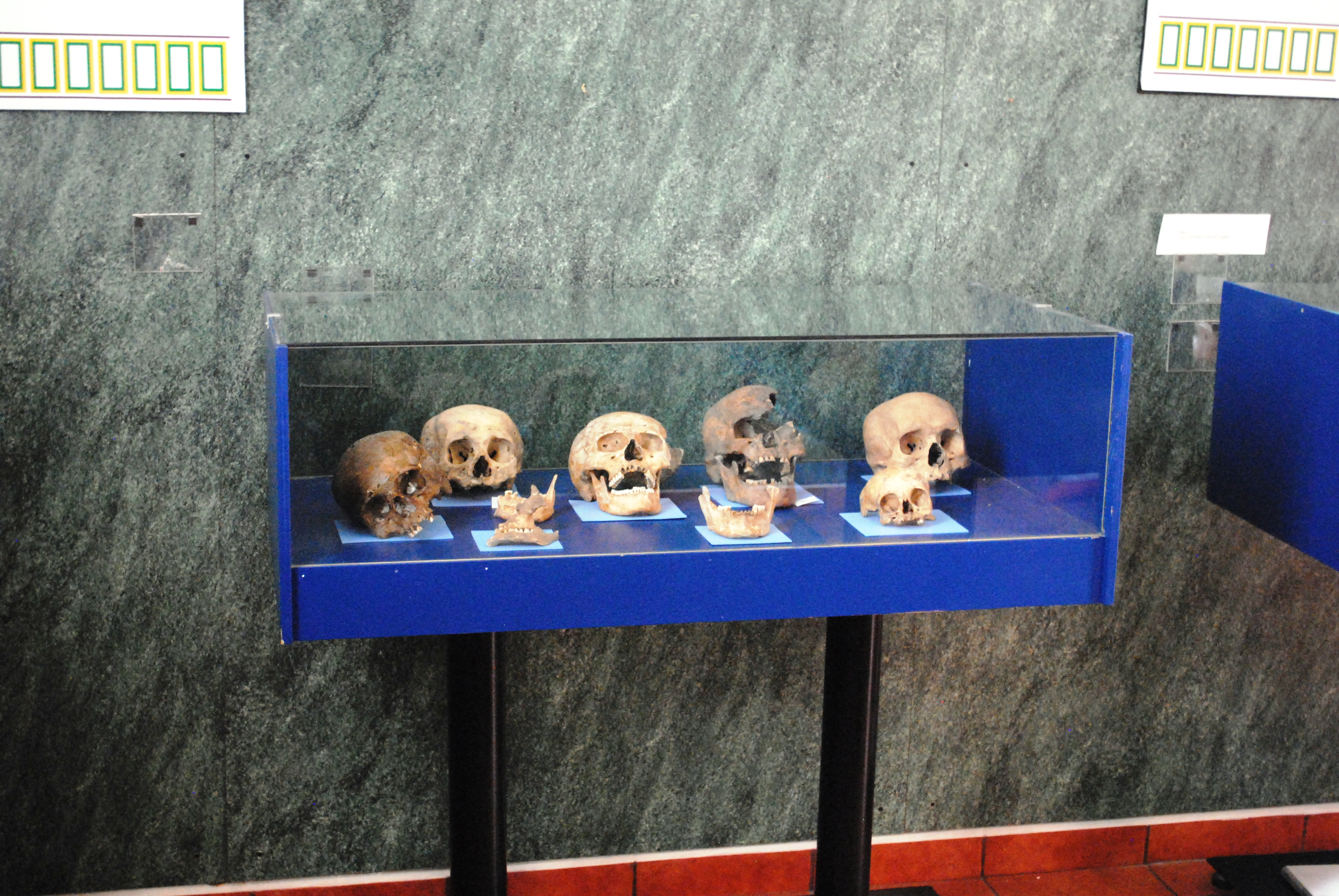 Muzeo Julsrud